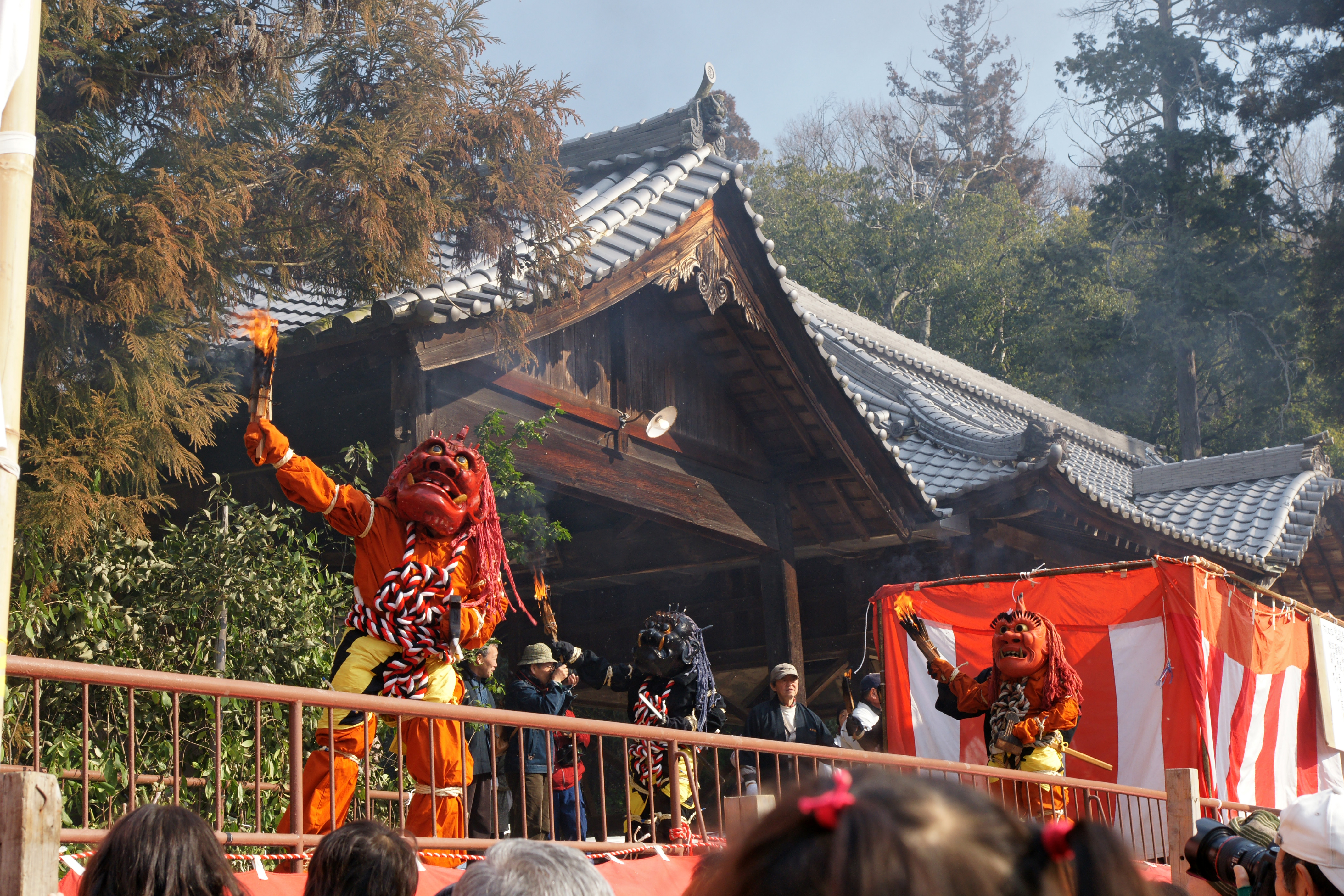 Oni-oi Shiki in Omiya-Hachimangu, Miki, Hyogo prefecture, Japan